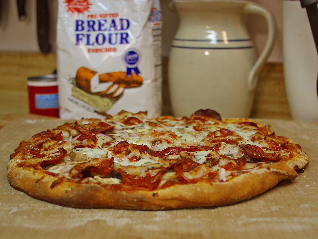 A photo of a pizza with peppers